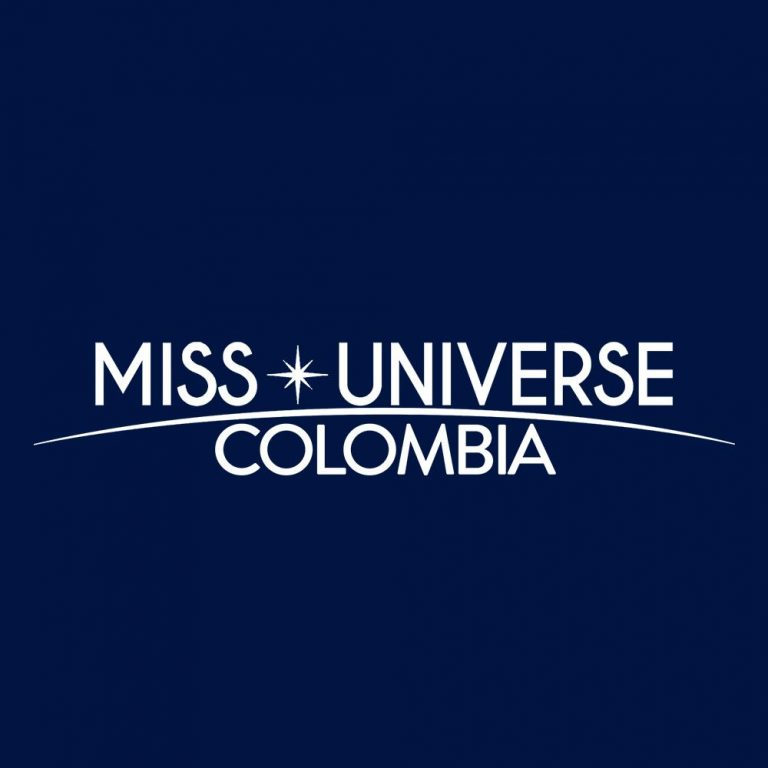 It is the image with the representative logo of the organization, which is on all its official platforms